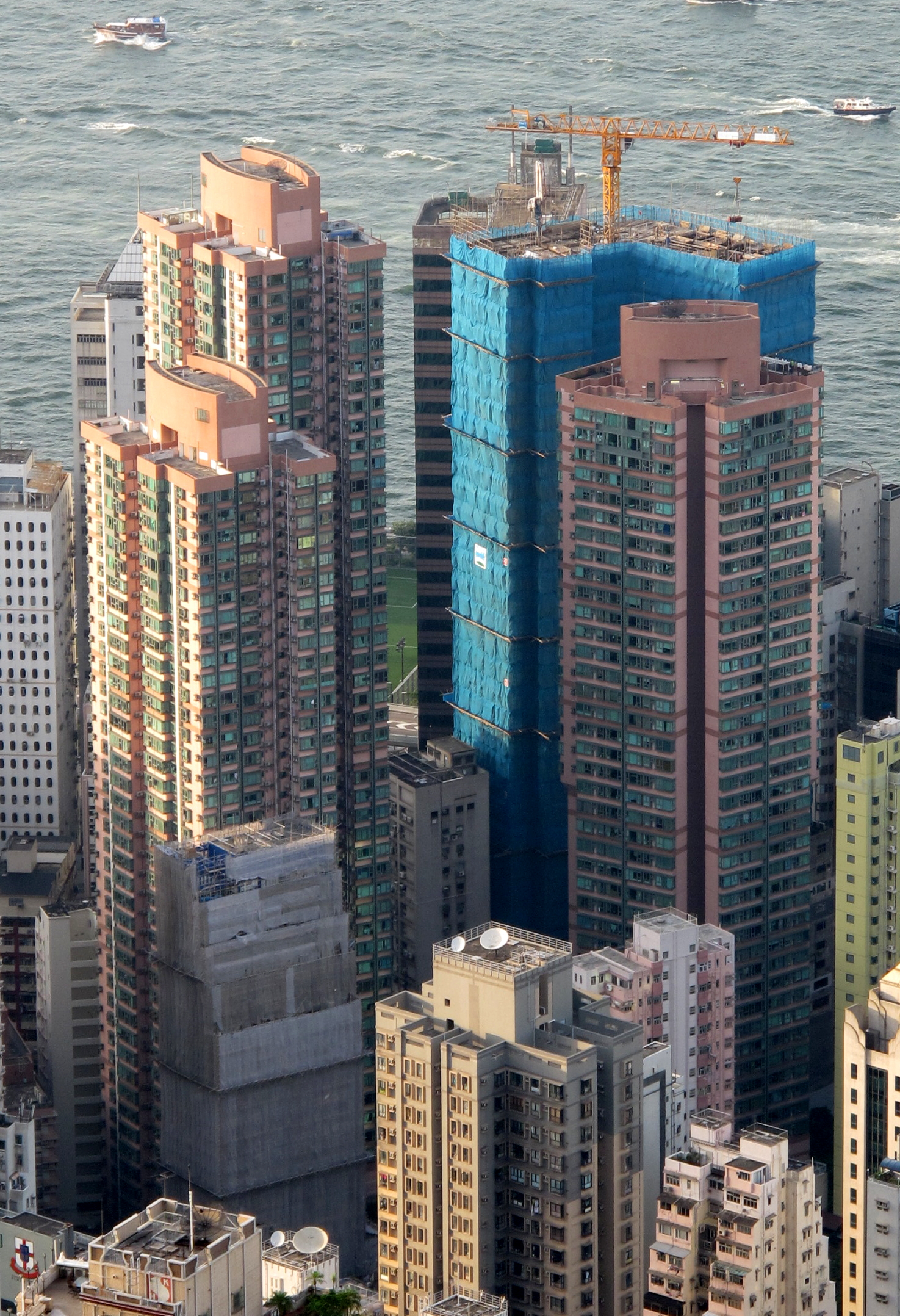 Queen's Terrace 帝后華庭